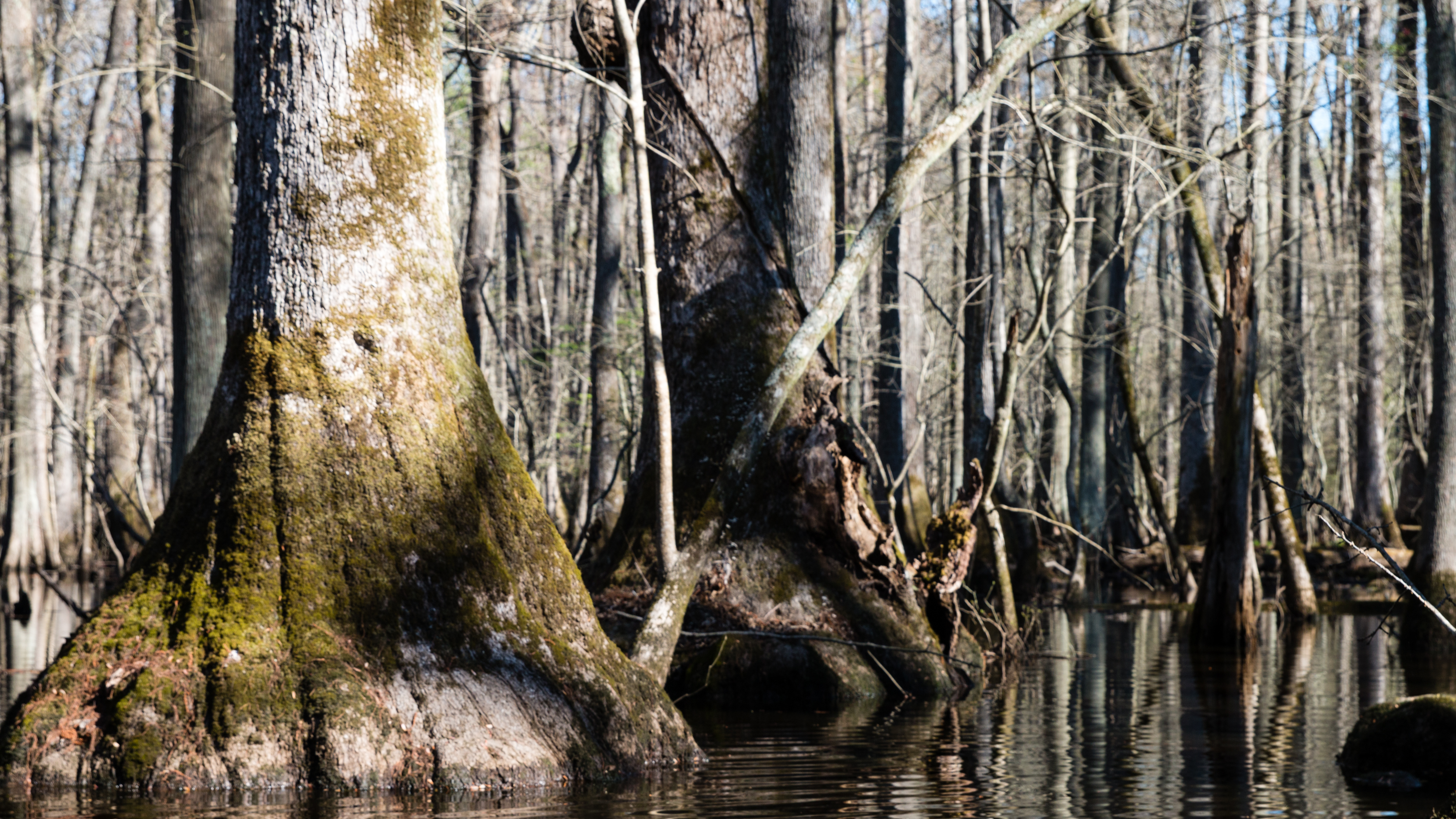 A National Natural Landmark in Sussex County, Va that contains virgin forest of bald cypress and water tupelo. NPS Photo/ M.Reed